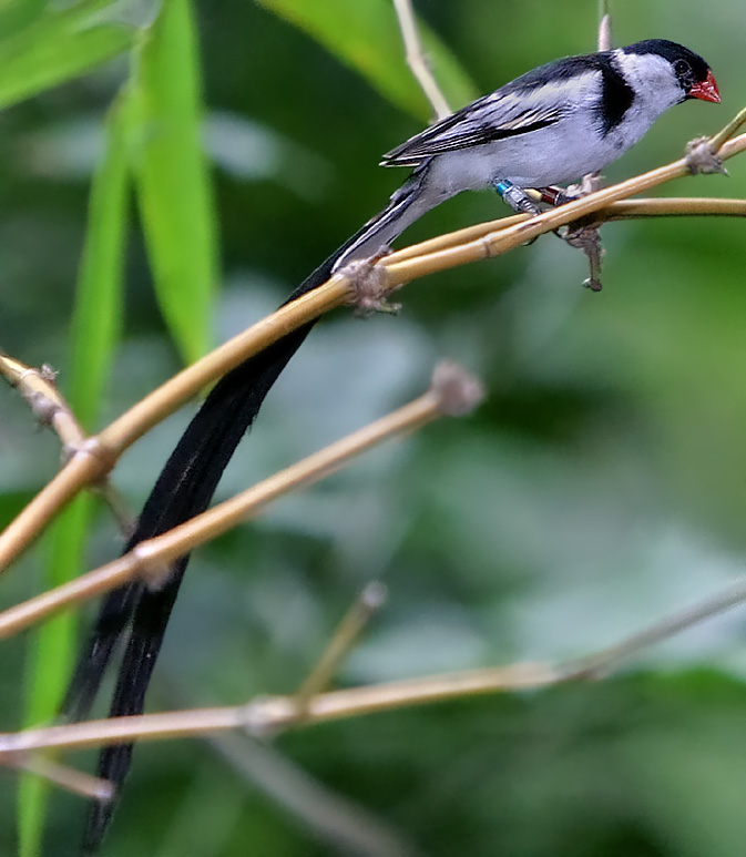 Pin-tailed Whydah